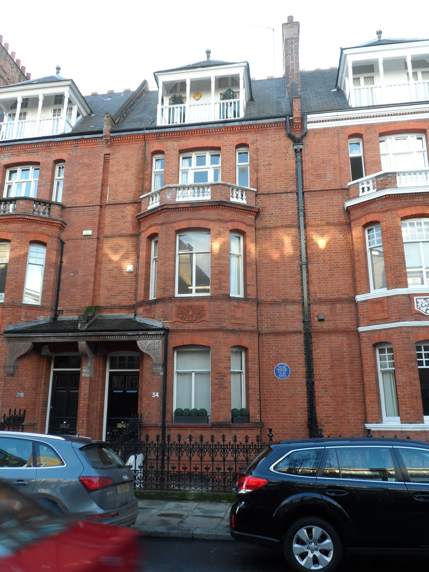 OSCAR WILDE 1854-1900 wit and dramatist lived here